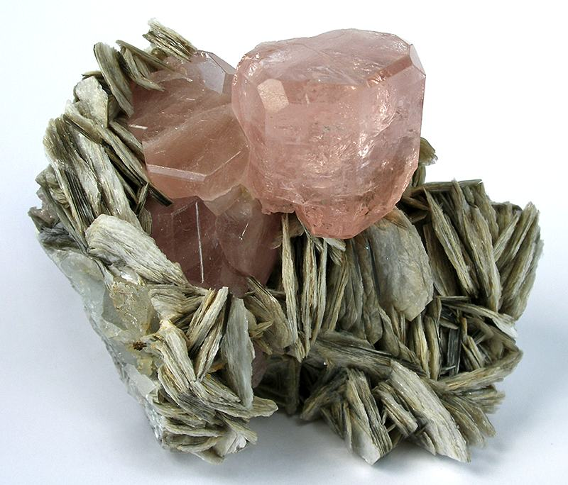 Apatite-(CaF), Muscovite Locality: Chumar Bakhoor, Hunza Valley, Gilgit District, Northern Areas, Pakistan (Locality at ) Size: small cabinet, 7.6 x 6.2 x 4.6 cm Fluorapatite on Muscovite From the gem pegmatites of Pakistan, this aesthetic specimen features a castle-like cluster of glassy and gemmy, pink crystals of fluorapatite to 2.0 cm in length, perched on contrasting crystals of muscovite to 1.3 cm across. The largest fluorapatite crystal is doubly terminated and almost an inch in size. It is nearly perfect but does have a small ding to the back of the top termination... when properly displayed this is not evident. Overall, considering these are usually priced at the source as if they were pink gold crystals, this is a very aesthetic specimen at a fair price, with remarkably freestanding presentation of the crystals. I obtained it direct at the mines and trimmed it up to get it this way...with some luck, I admit!